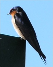 Welcome Swallow, Hirundo neoxena'